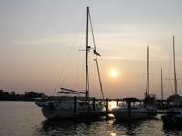 Sailboats docked at Washington, North Carolina waterfront. Photo by A. T. Kelso (2007).